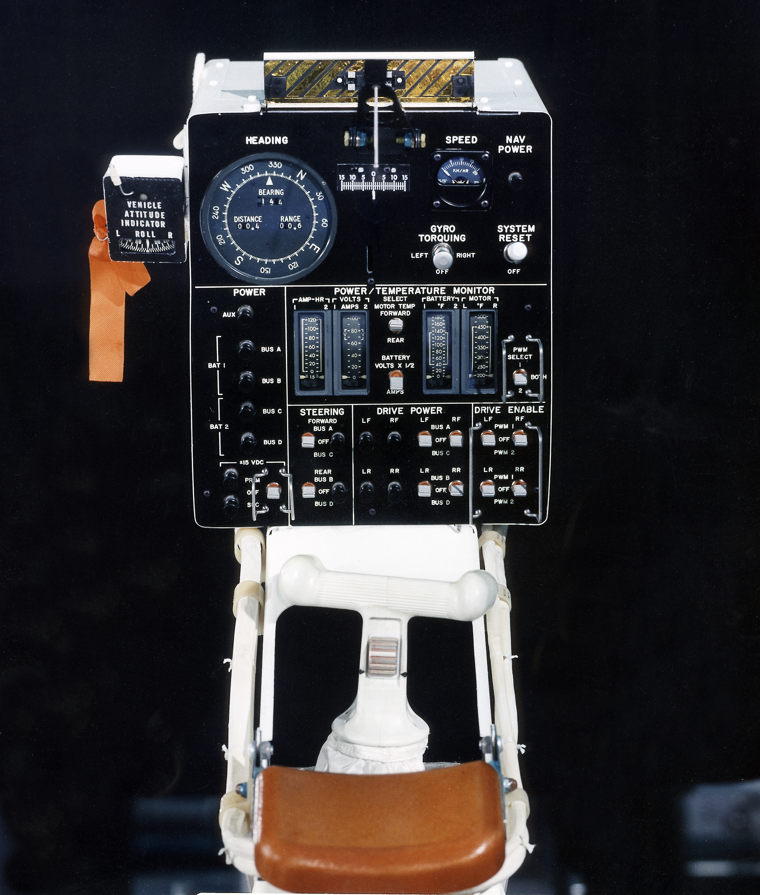 This photograph is a view of a display, control console, and hand controller for the Lunar Roving Vehicle (LRV) No. 2.